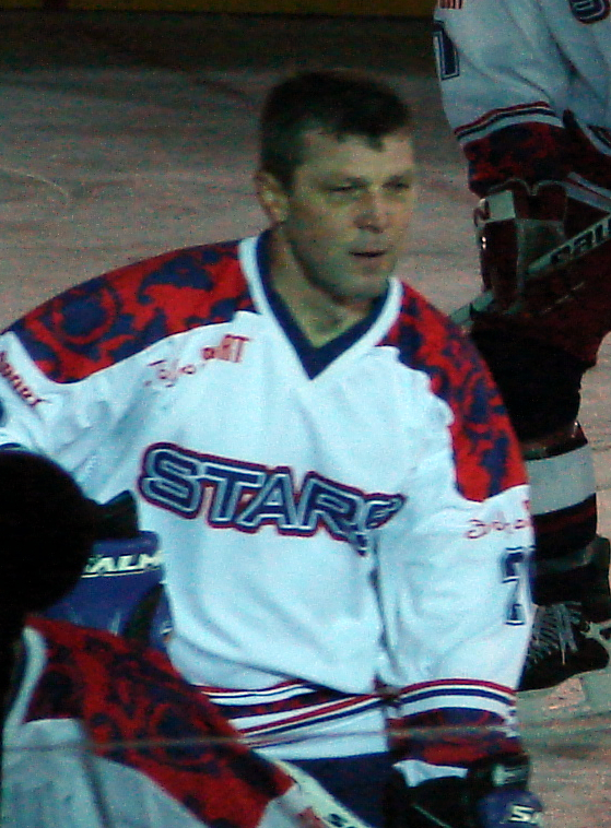 Peter Šťastný, former ice hockey player from Slovakia, nowadays Member of the European Parliament playing on the Red Square